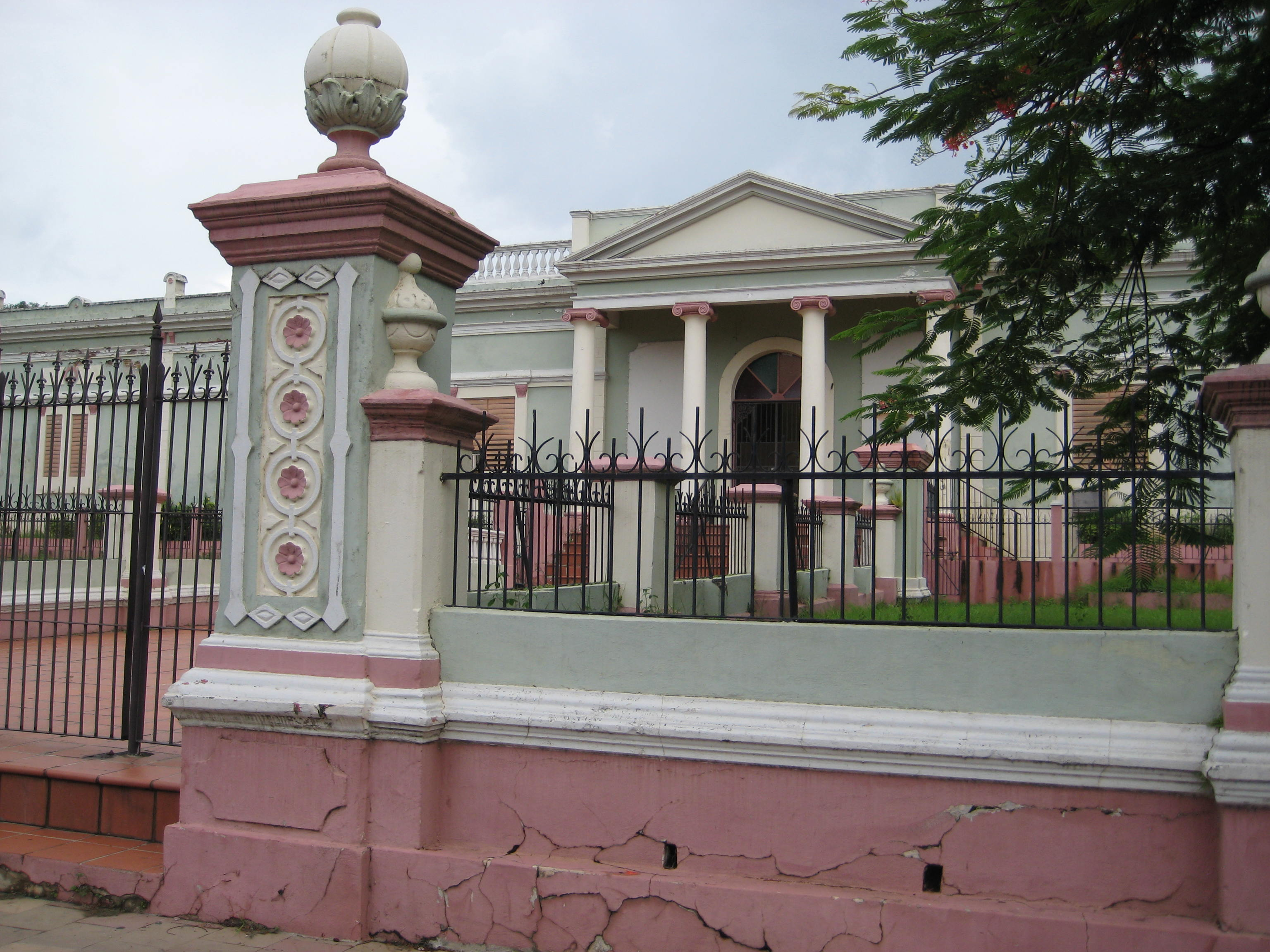 Foto of the Asilo De Pobres